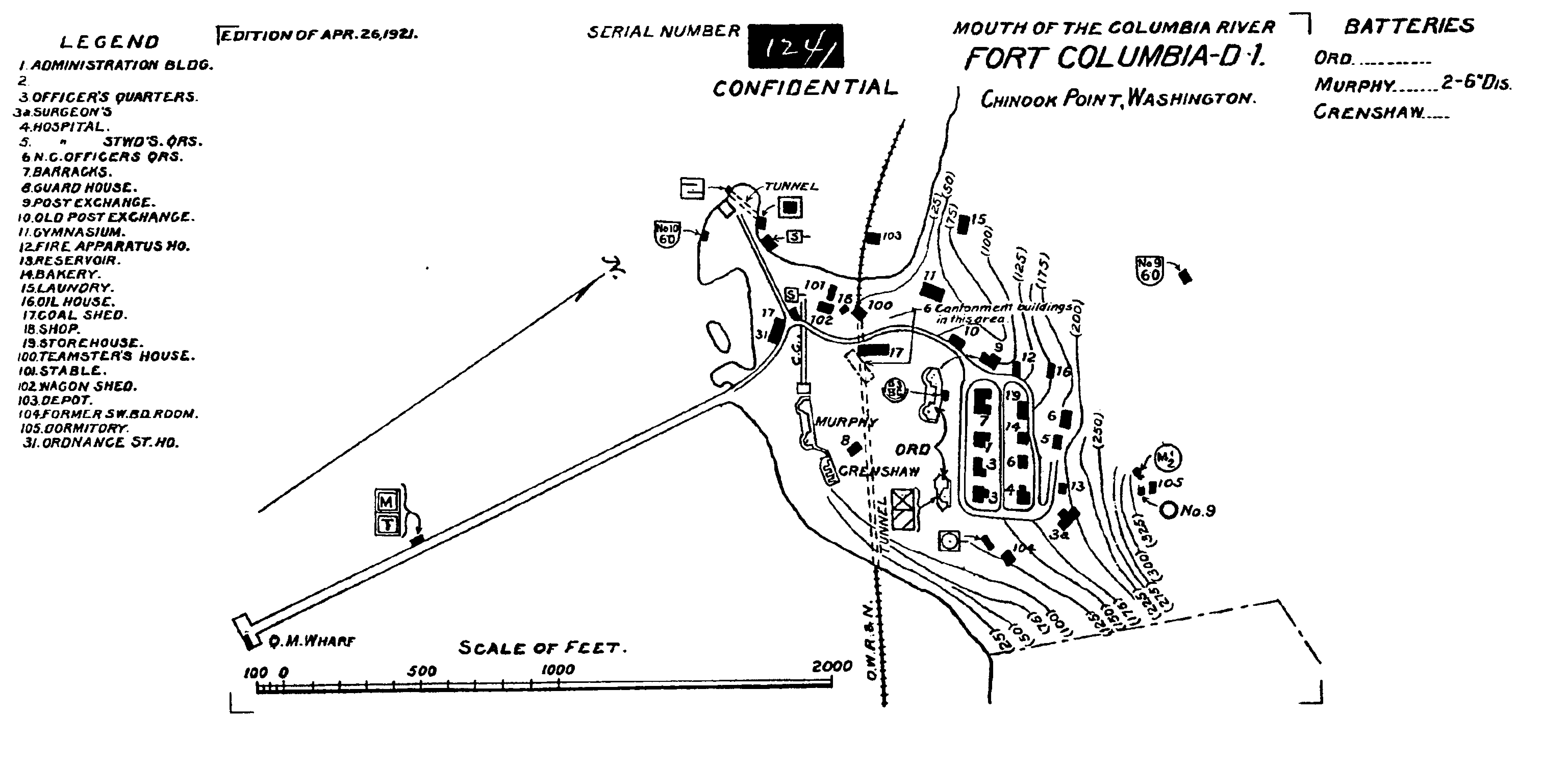 Scan of map prepared by U.S. Army Corps of Engineers in 1921, showing Fort Columbia near Chinook, Washington. This is part of a whole series of U.S. army-prepared maps scanned by Coast Defense Studies Group some of which are available, as this one was, on their website, in .PDF format, and over which they assert no copyright, other to charge a small fee for CDs of maps not available on-line.